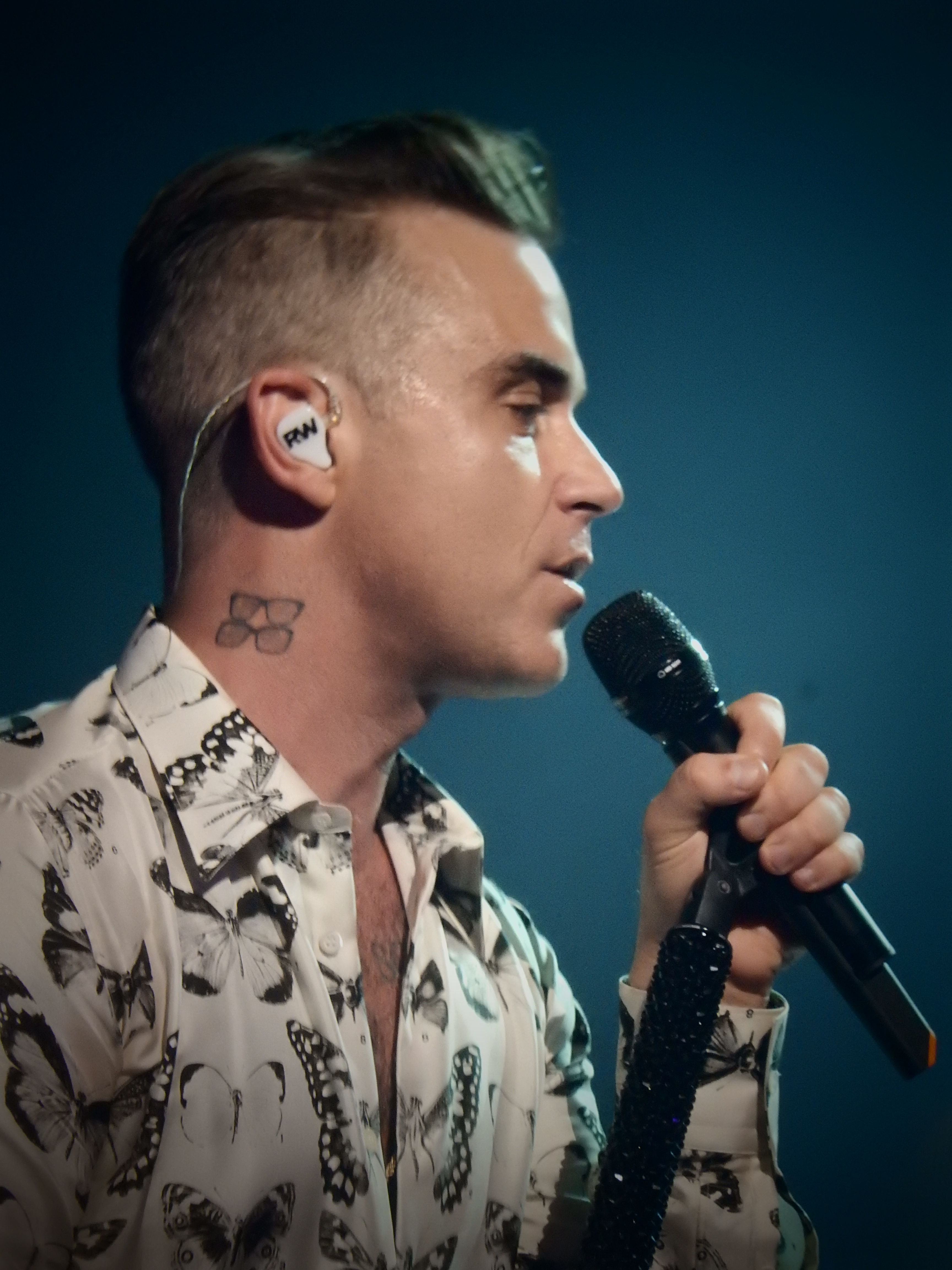 Robbie Williams, Roundhouse, London (Apple Music Festival)